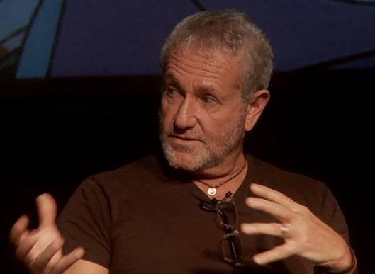 Actor Charles Adler at comic con.